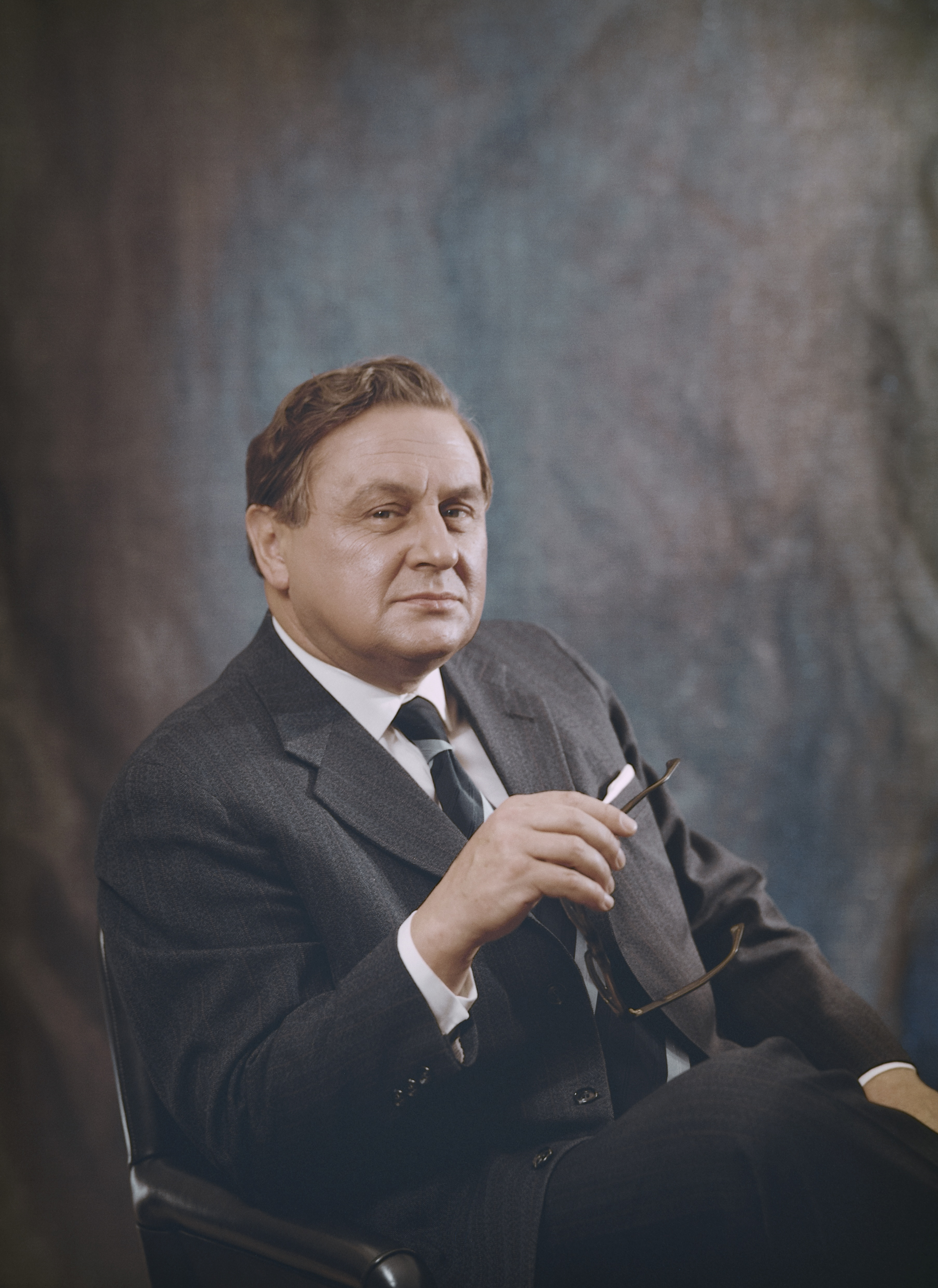 Photograph of the Finnish director general Lars Mikander (1917–1999).